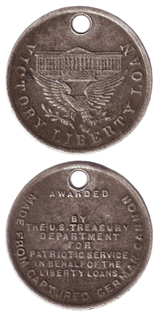 1919 WWI "Victory Liberty Loan" steel medallion made from "captured German cannon" awarded by the U.S. Treasury Department for "patriotic service in behalf of the Liberty Loans". Medallion is one-and-one-quarter inches in diameter. Obverse depicts the U.S. Treasury Department building located opposite the White House in Washington, DC. The steel came from melted down German cannon that had been captured by American troops at Château-Thierry in NW France and the medallions were then awarded by the Department to Victory Liberty Loan campaign volunteers. Source: "The Cooper Collection of U.S. Military History" (Uploader's private collection) Digital image by uploader